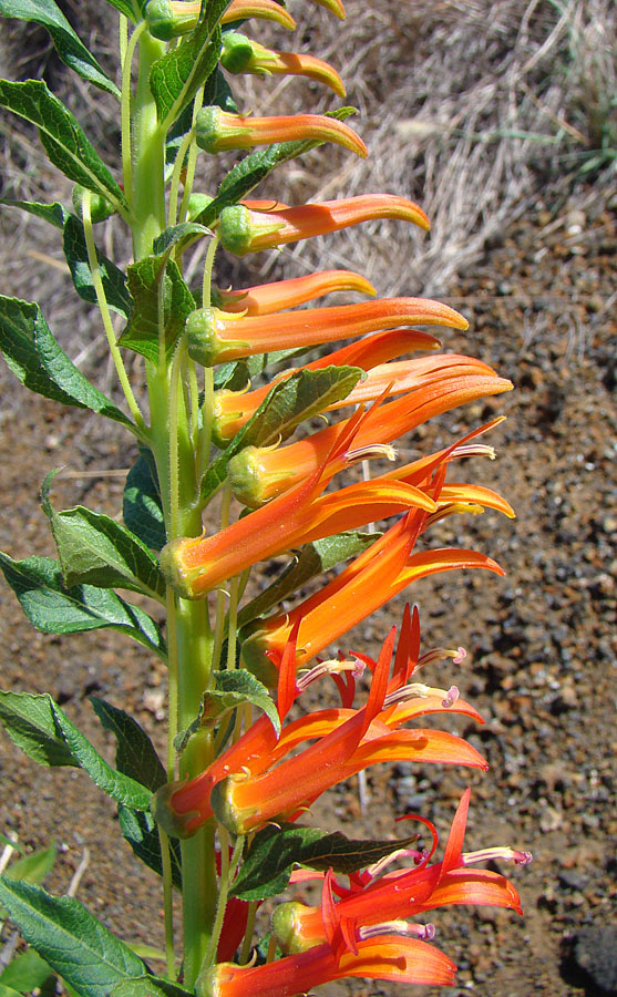 Native from Mexico to Colombia, under names such as Caragallos. Photo from Volcan Masaya, Nicaragua. In context at